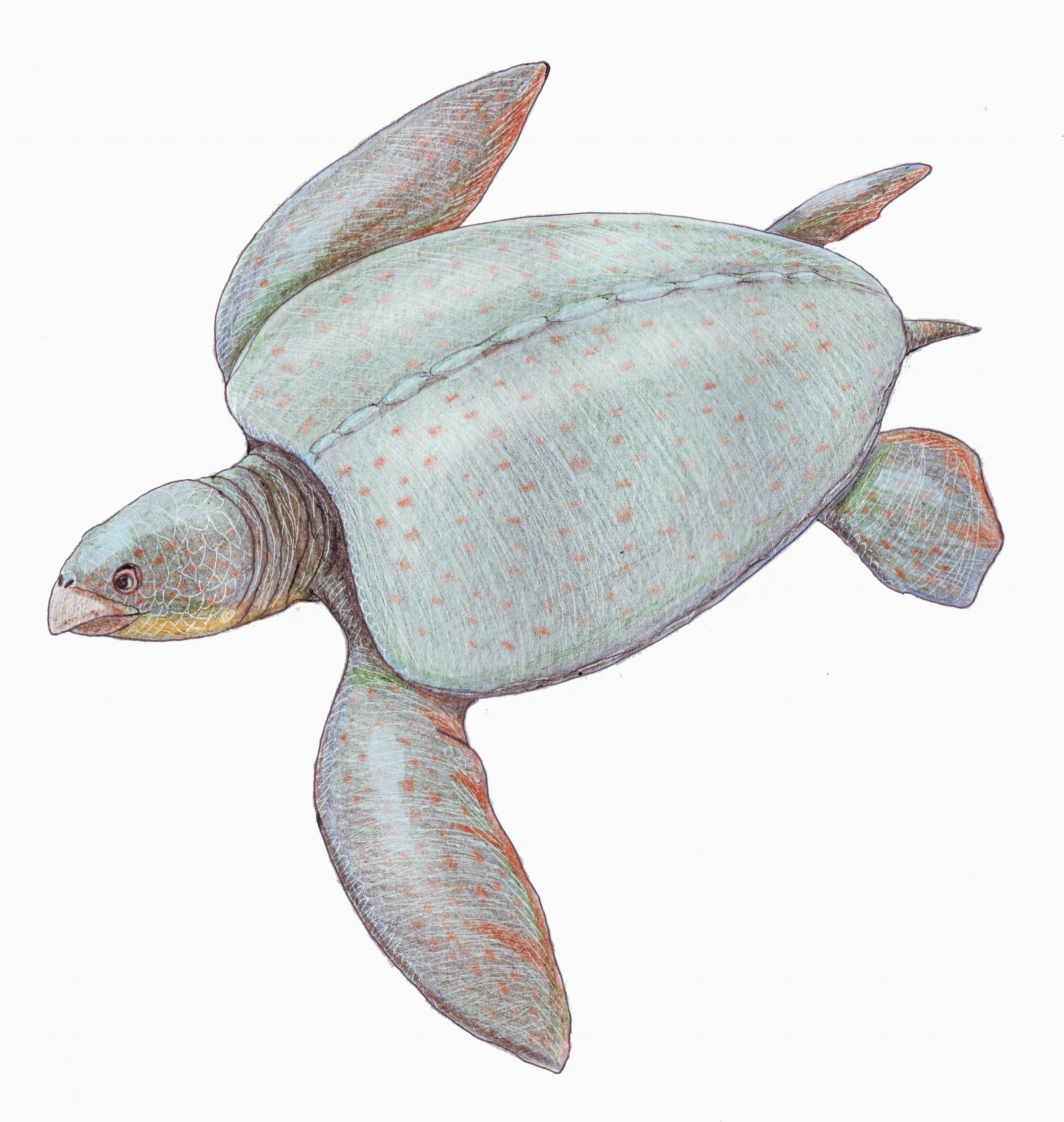 Protosphargis veronensis - protostegid turtle from Late Cretaceous of Italy